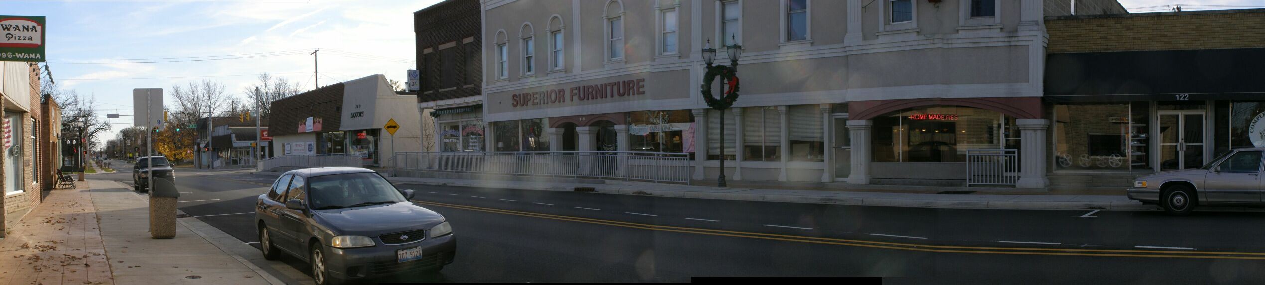 Panoramic view of Hebron, Indiana